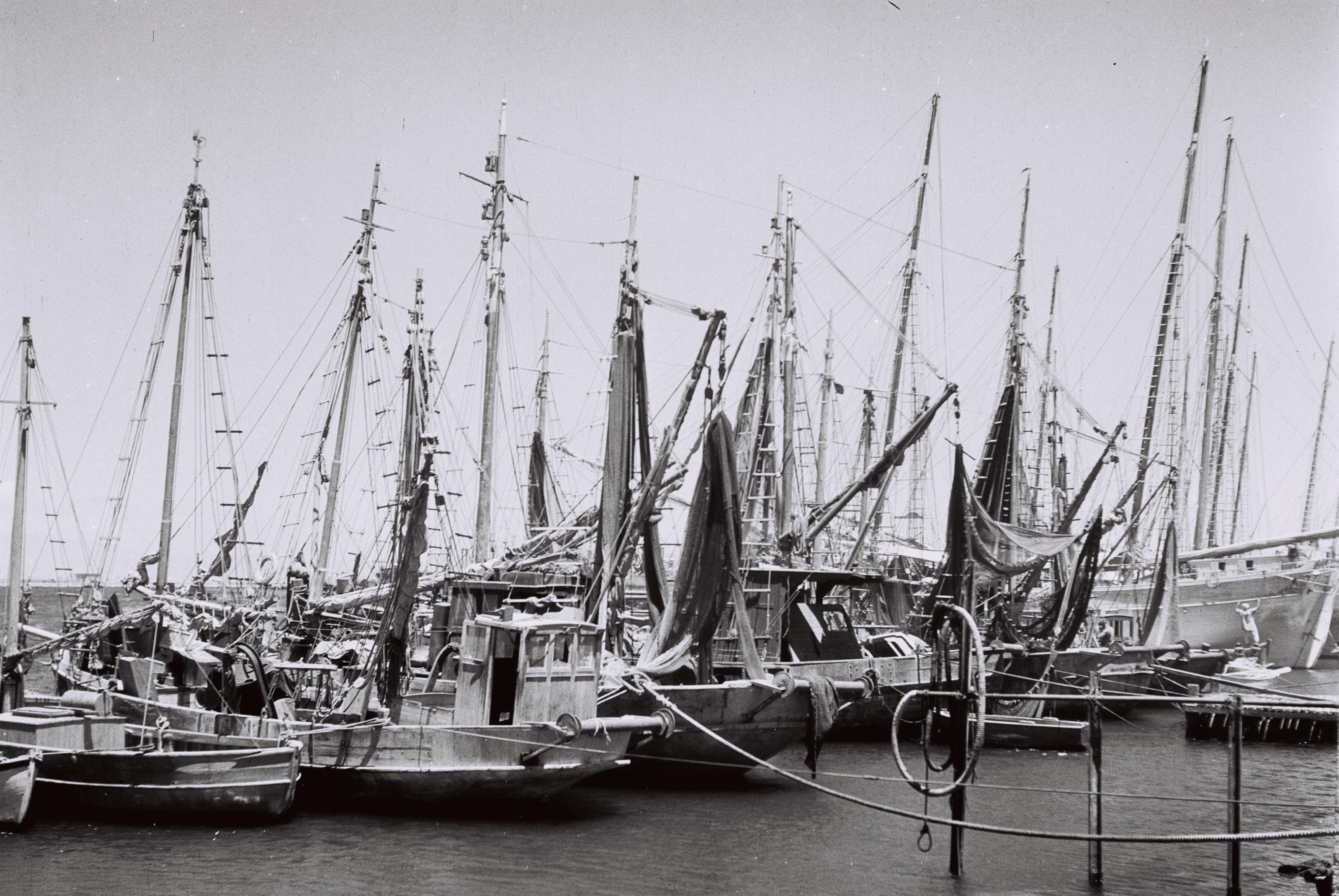 THE FISHING FLOTILLA OF THE "NACHSHON" COMPANY IN HAIFA PORT. סירות הדייג של חברת "נחשון" עוגנות בנמל חיפה.